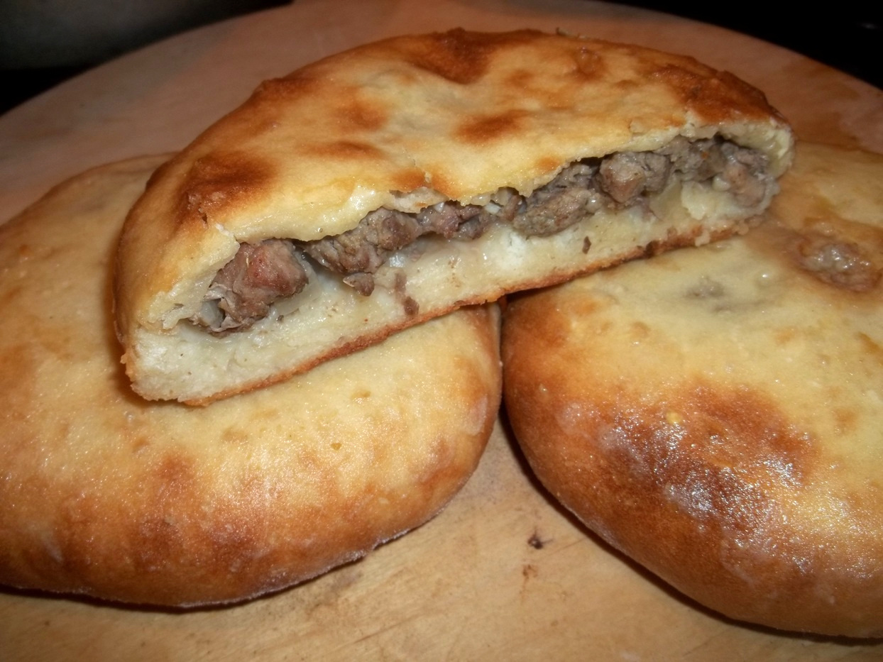 Kubdari (Svanetian meat-filled pastry)